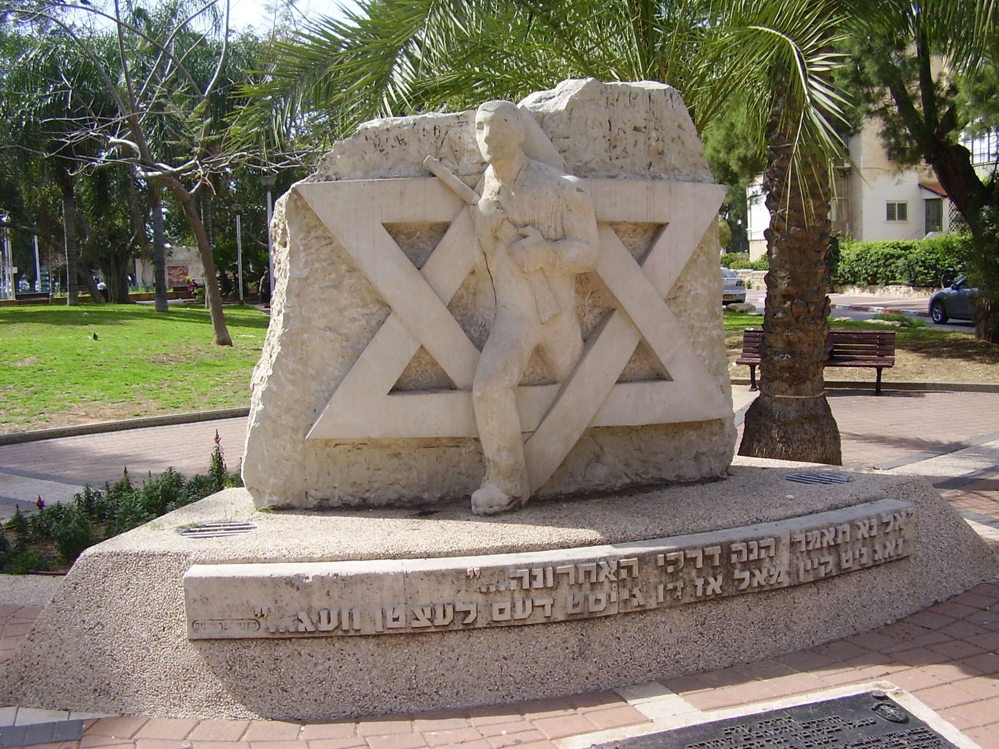 jewish partisans memorial in bat-yam. on the bottom, words of the partisan song in hebrew and yiddish: "do'nt say this is my last way" אנדרטה לפרטיזנים וללוחמים היהודים במלחמת העולם השניייה